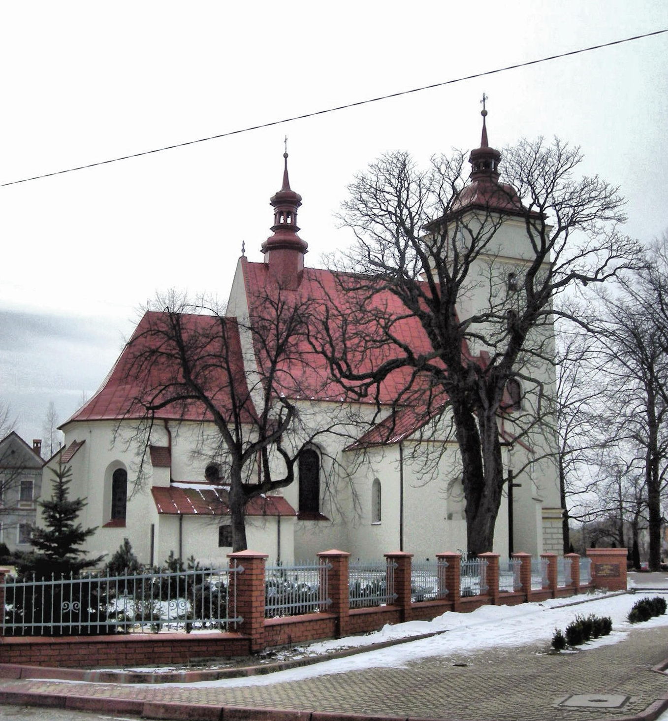 The church in Baranów Sandomierski, Poland.